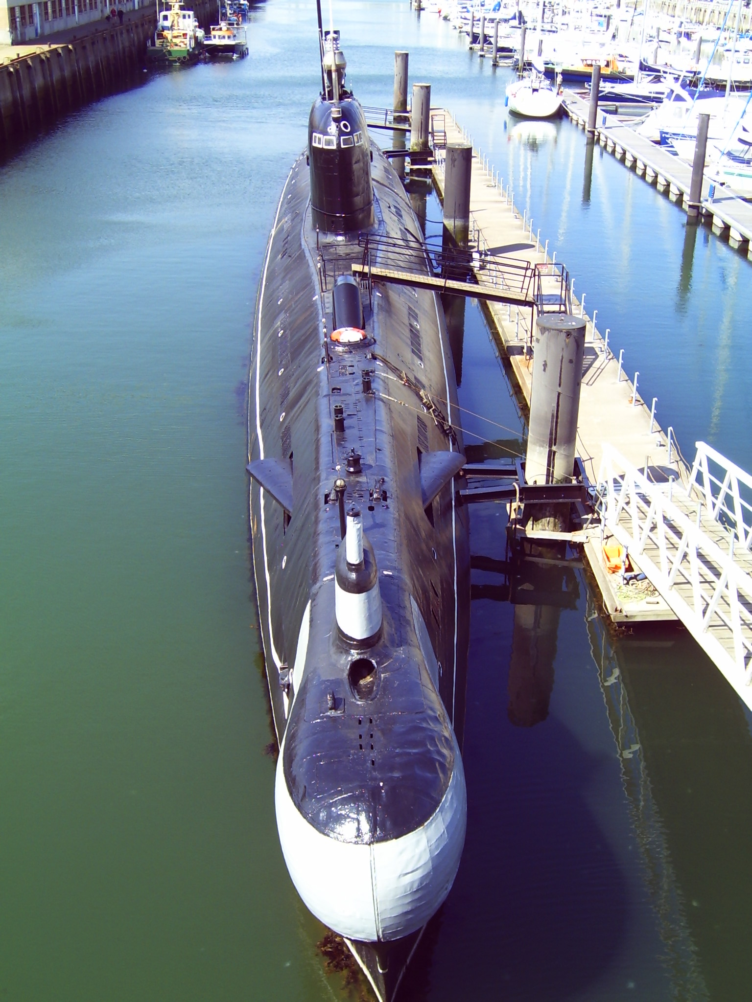 Front view of Soviet Foxtrot-class submarine B-21 (sometimes mistakely called B-143), on display at Seafront maritime theme park, Zeebrugge, Belgium (photographed from lightvessel Westhinder II)